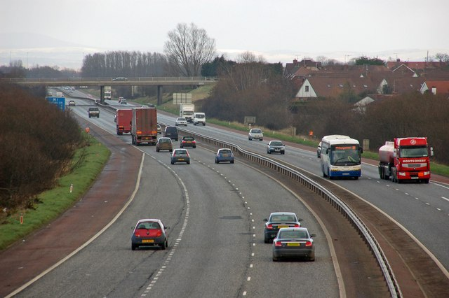 The M1/M12 near Portadown (2) See 350735. This is the view towards Lurgan and Belfast from the same bridge.